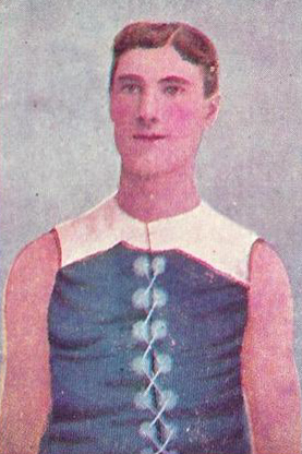 Cigarette card of Bob Boyle from the 1905 Wills Past and Present Champions series.